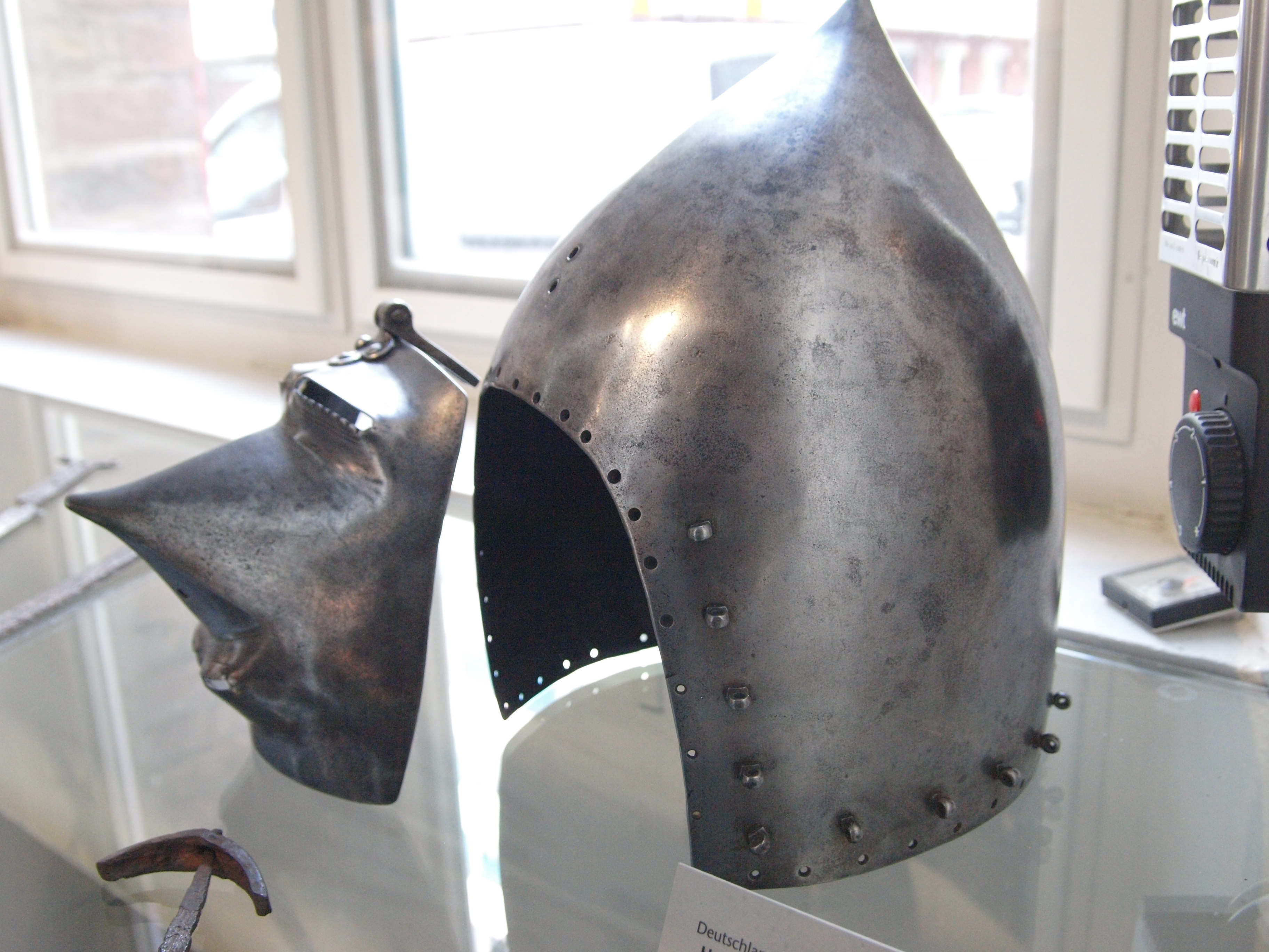 Bascinet (german Hundsgugel) from Cologne, Germany. 14th century. Museum of Köln city Native nameKölnisches StadtmuseumLocationCologneCoordinates50° 56′ 28.58″ N, 6° 57′ 00.6″ E Established1888Web pageKölnisches StadtmuseumAuthority control : Q881214 VIAF: 123987826 ISNI: 0000 0001 2106 4589 LCCN: n50047754 GND: 2015828-2 SUDOC: 167192442 WorldCat institution QS:P195,Q881214